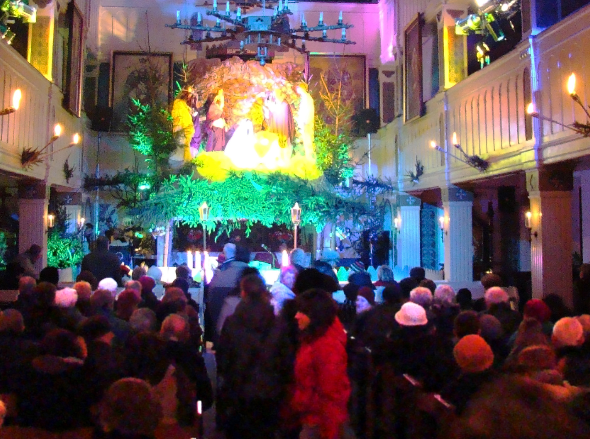 Pasterka, Midnight mass celebrated during Christmas by the Roman Catholic Church across Poland. In this photo: Saint Stanislaus Kostka church in Aleksandrów Łódzki.